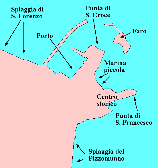 Vieste:Coast, beaches, lighthouse